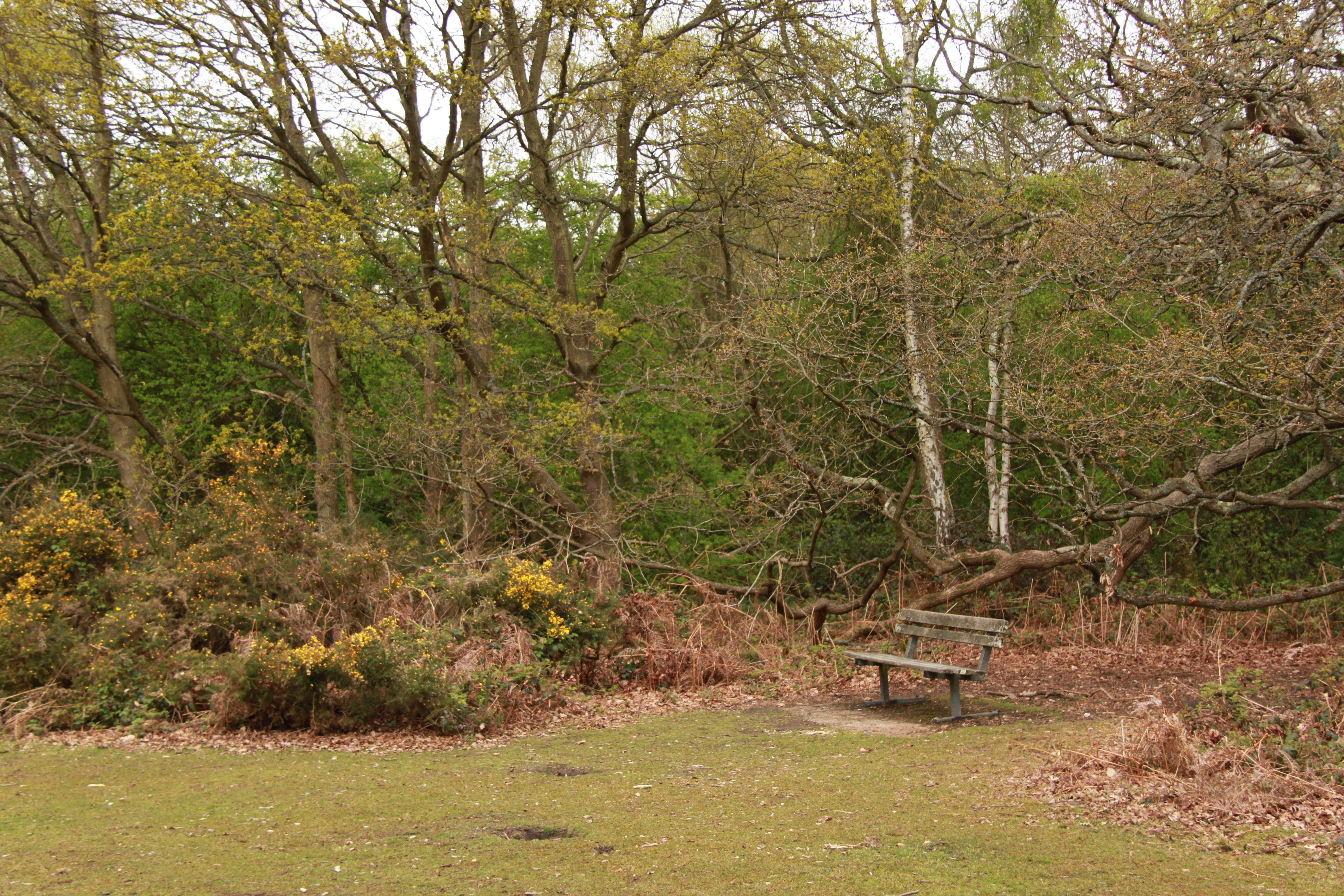 Spring in London - Wimbledon - April 2012